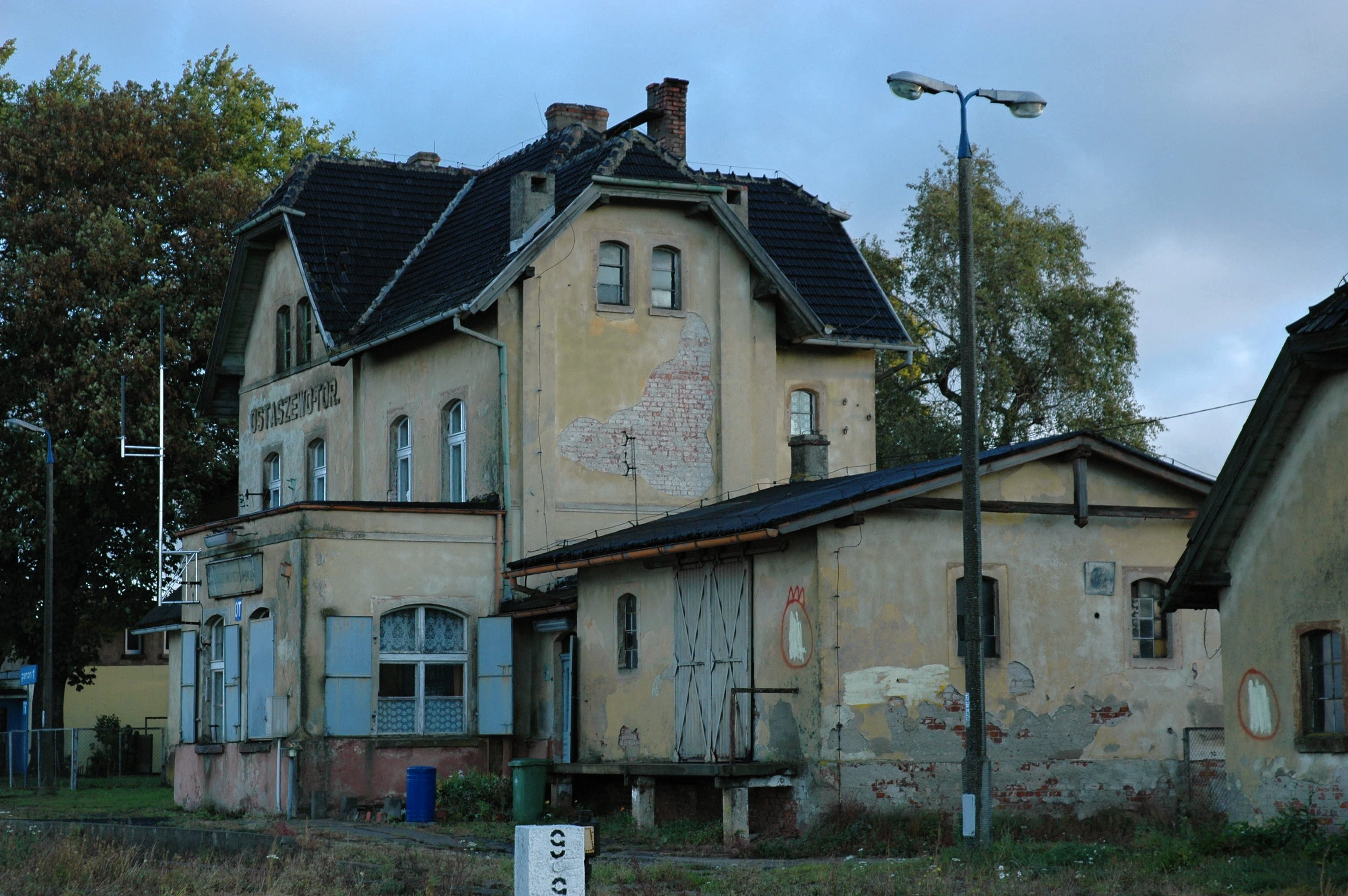 Ostaszewo Toruńskie railway station, Poland